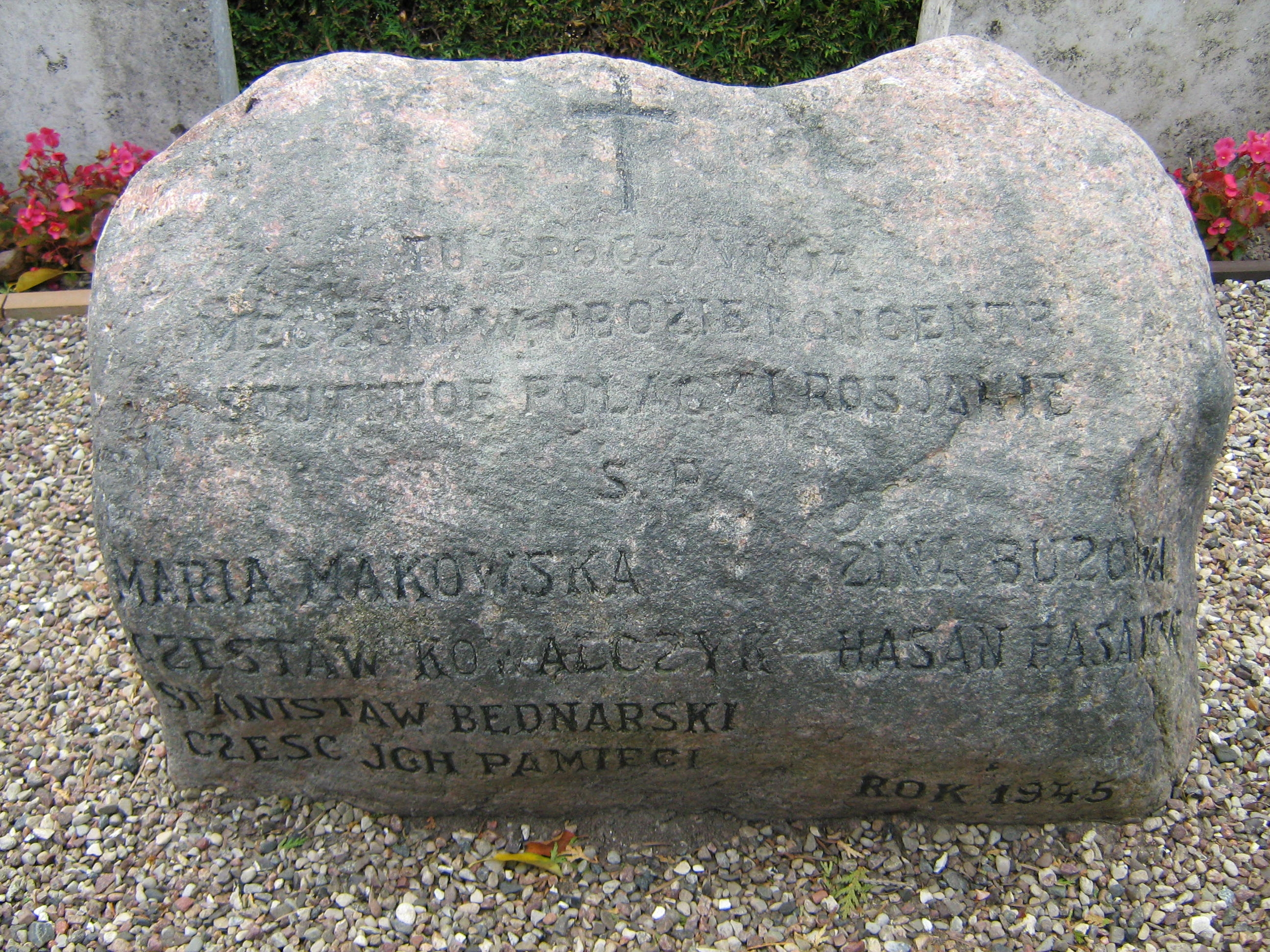 Stone in Magleby churchyard, Møn, Denmark, with the names of prisoners from Stutthof concentration camp who died in May 1945 after arriving on a river barge.